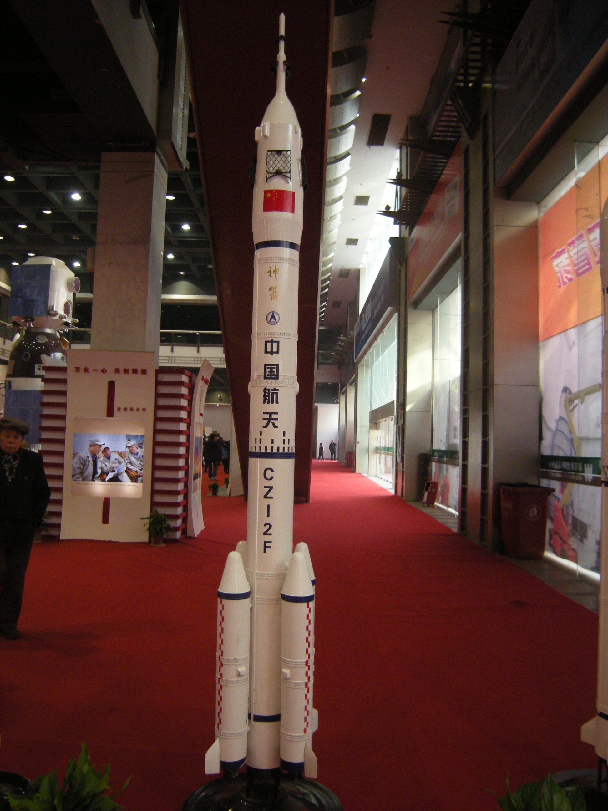 CZ-2F_launch_vehicle_model